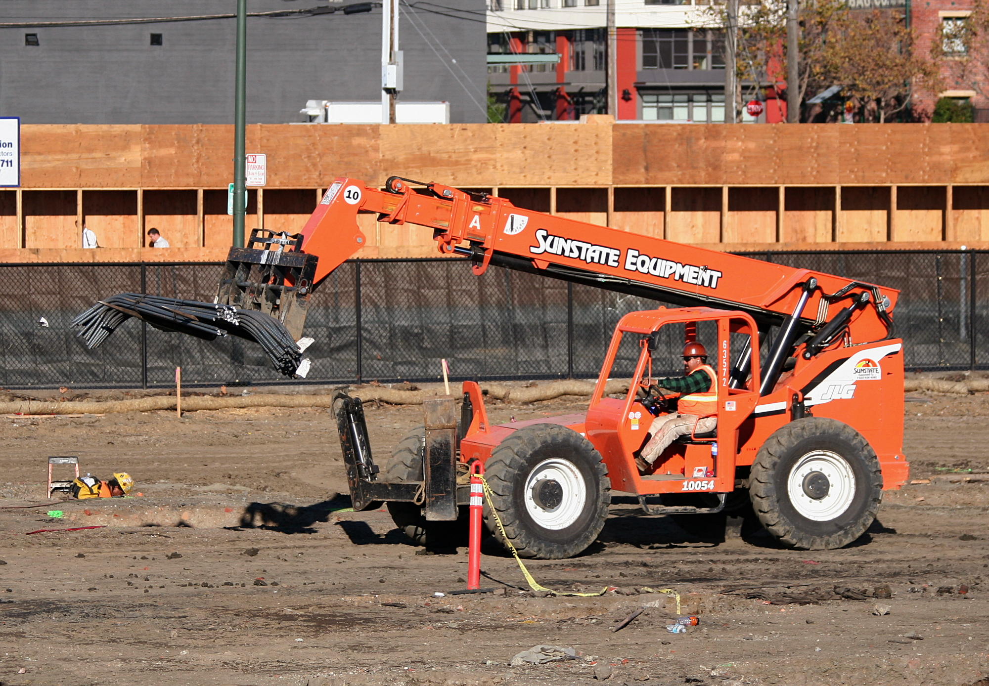 Telescopic handler JLG 10054